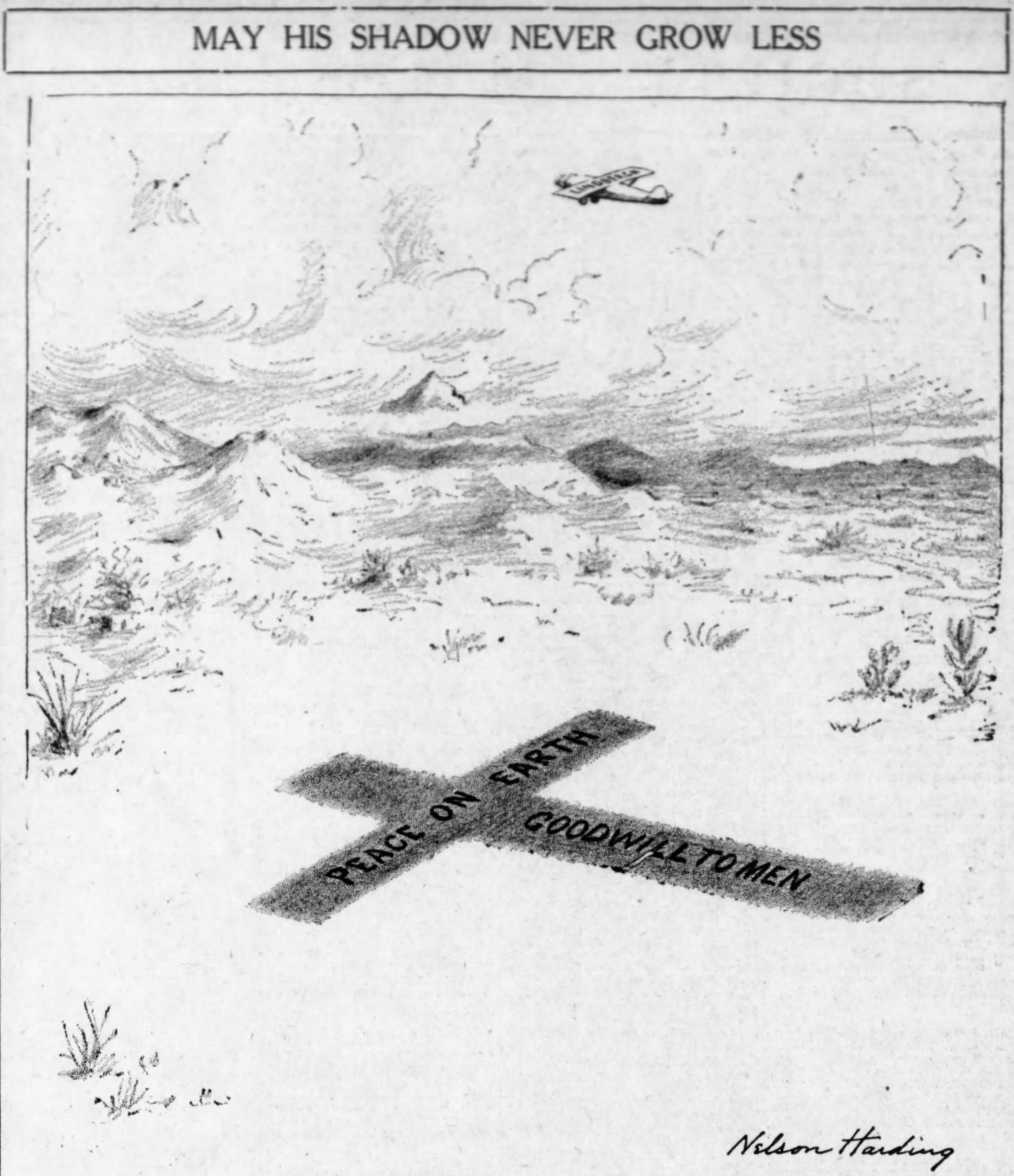 An editorial cartoon paying tribute to Charles Lindbergh's goodwill tour to Latin America. Winner of the 1928 Pulitzer Prize for Editorial Cartooning.